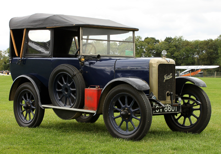 Jowett Short-chassis tourer (1926) from Shuttleworth Collection Type C Chummy horizontal twin-cylinder SV6601 (DVLA) manufactured 1926, 907 cc